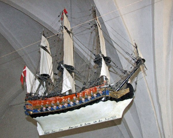 Model ship, danish 'ship of the line Prinds Christian'. Photo taken by Jørgen Larsen, 2005-12-14, in the danish church of Elling.